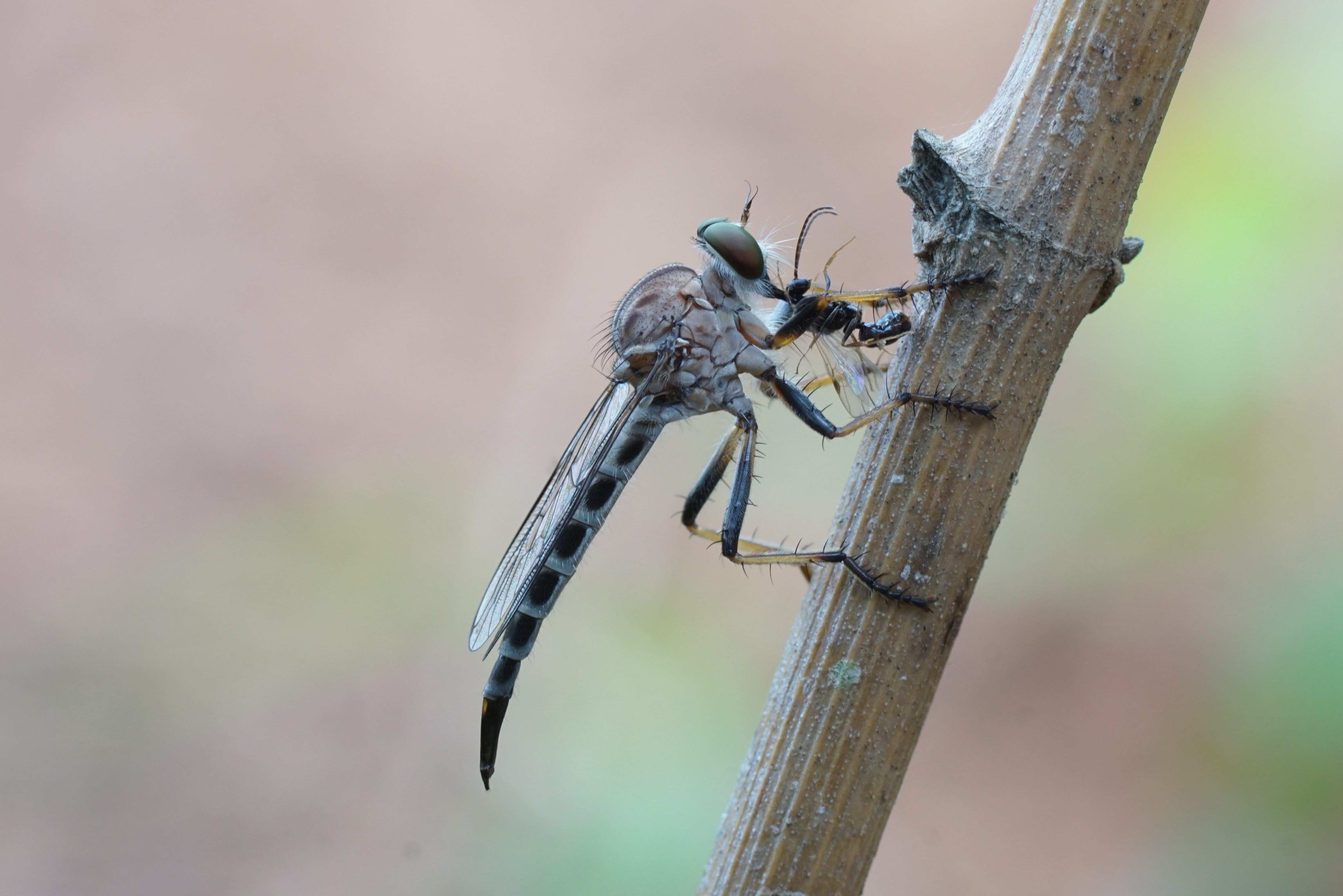 Asilidae with prey